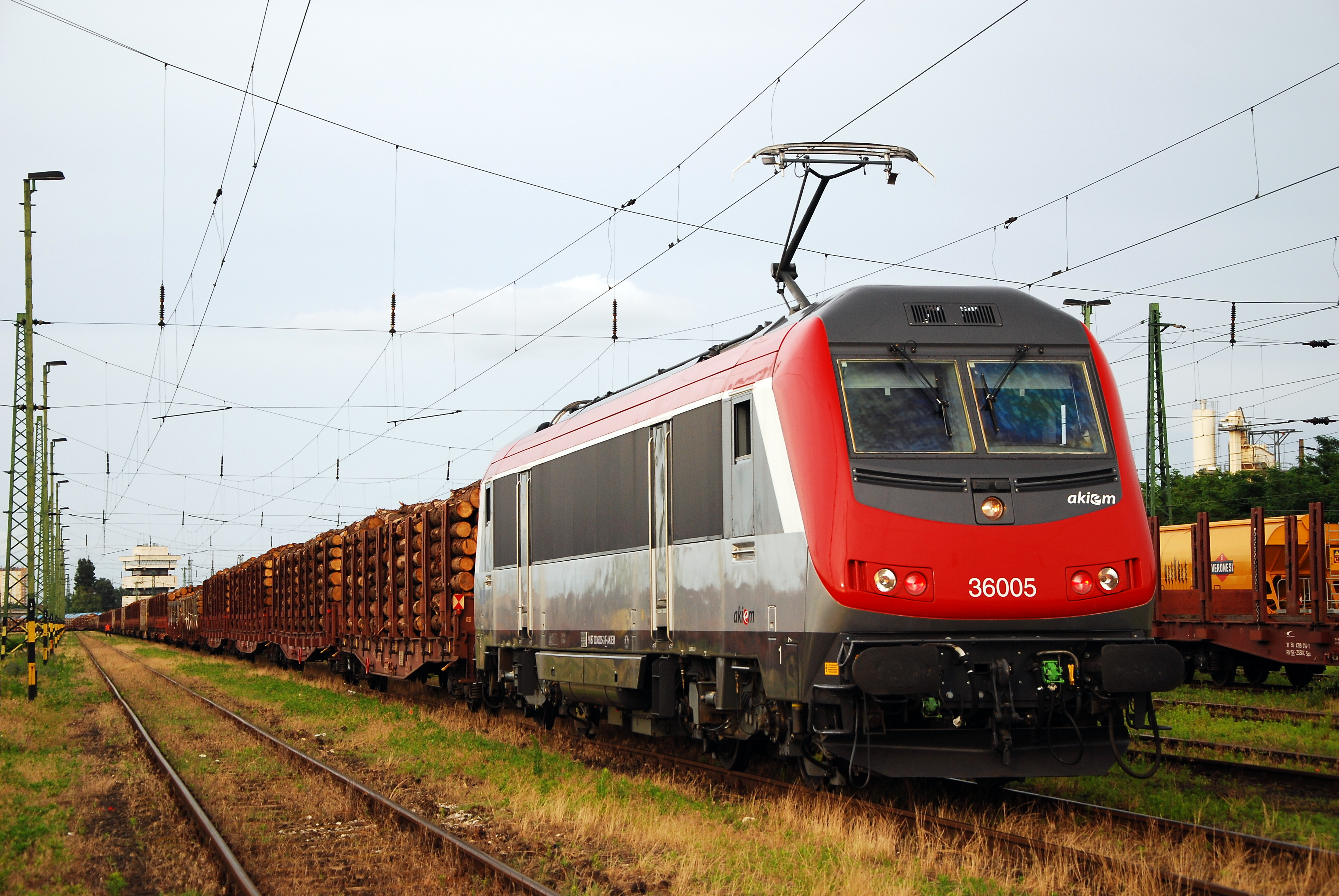 The very first train in Hungary